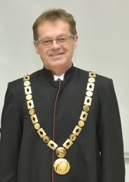 dean